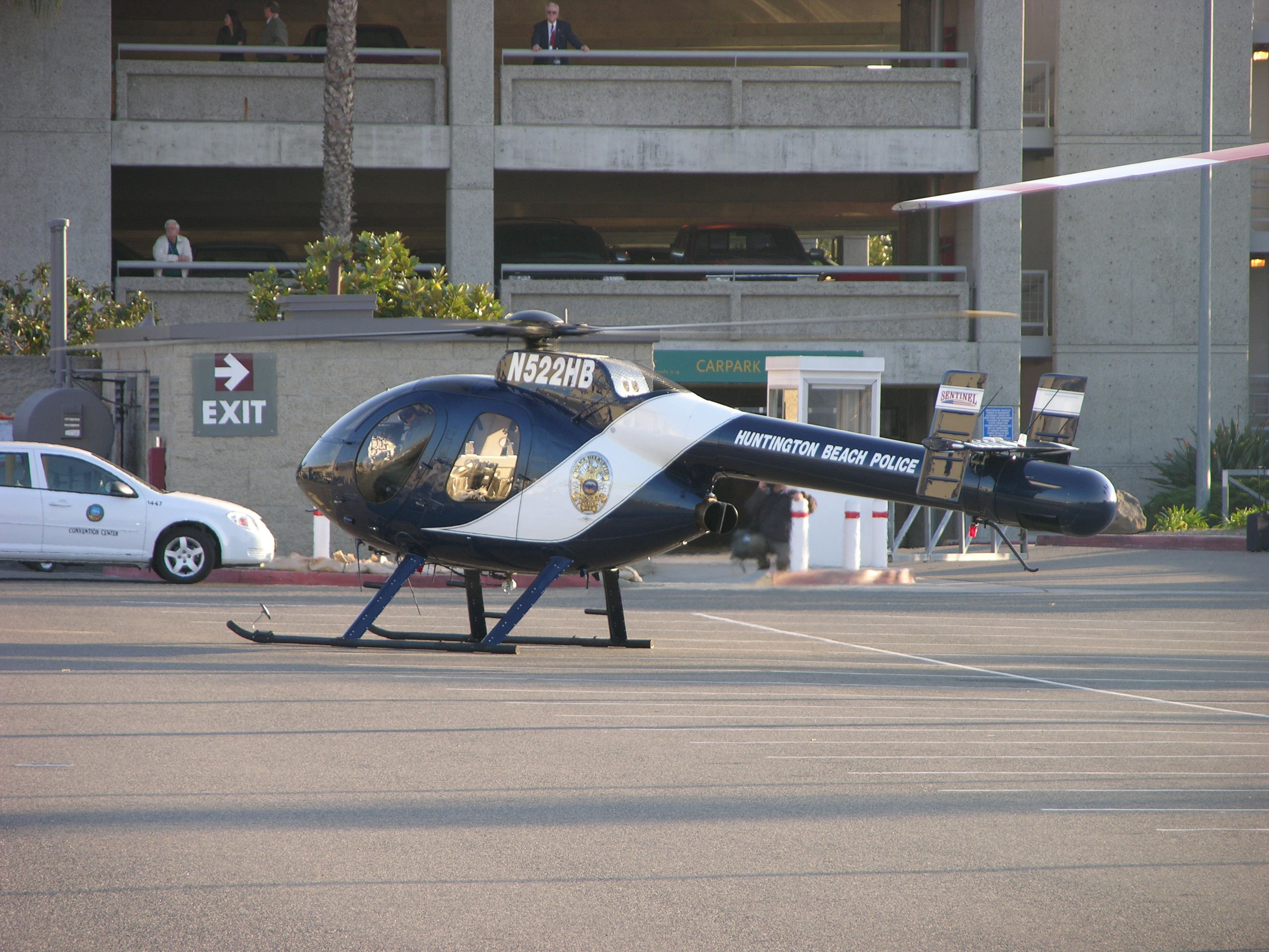 MD500N helicopter of the Huntington Beach (California) Police Department